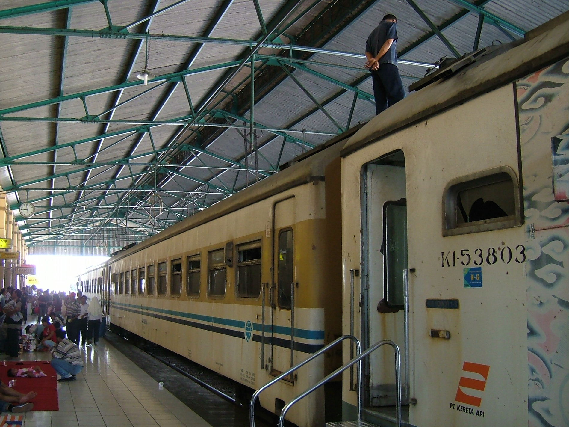 Cirebon Express train at Cirebon Station, West Java, Indonesia. チルボン駅に停車中のチルボン・エクスプレス。